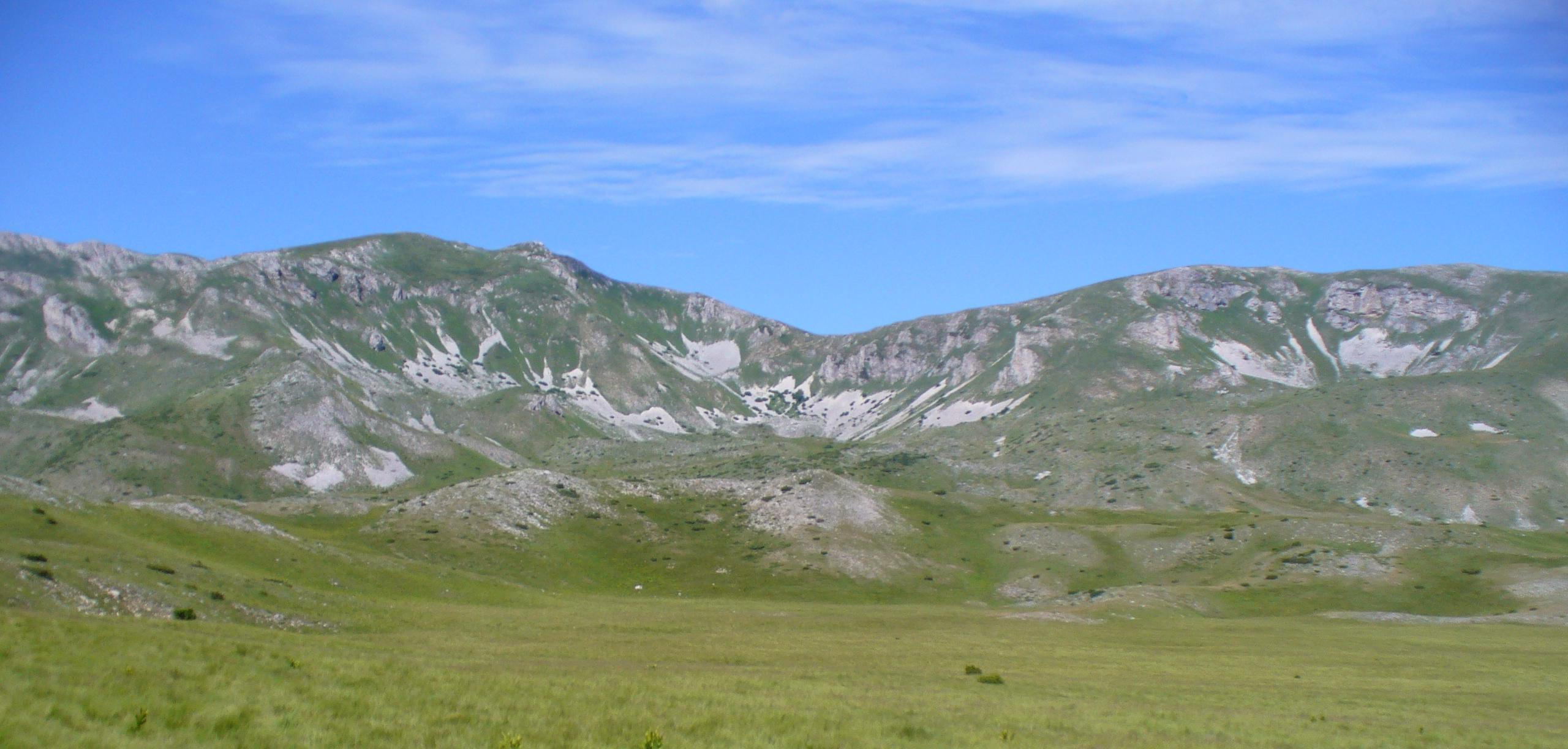 Bistra Mountain, Macedonia